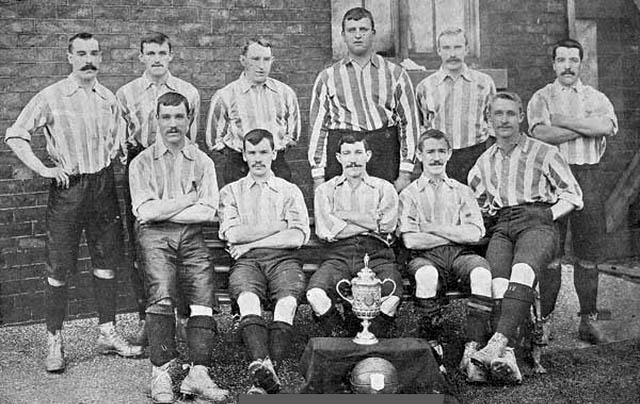 The Sheffield United FC players posing with the FA Cup won in the final.